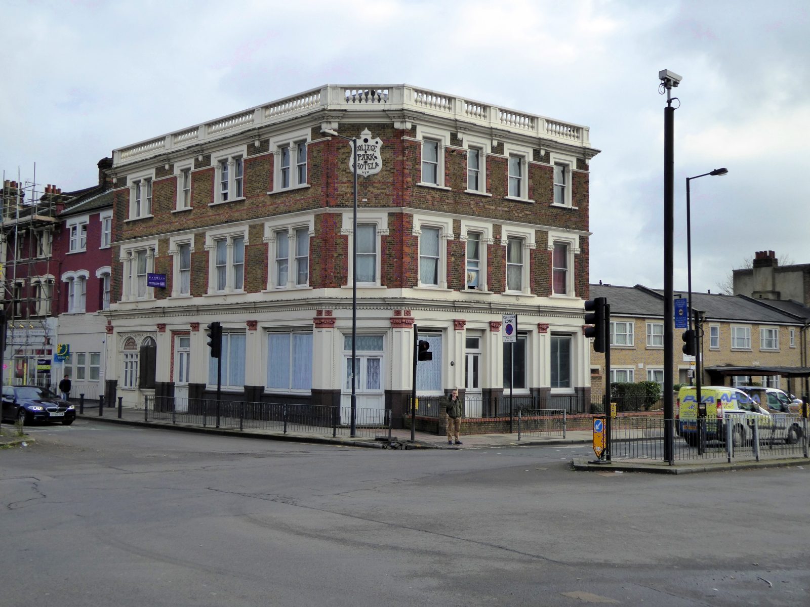 The former College Park Hotel, Harlesden Victorian building at the junction of A404 and A219